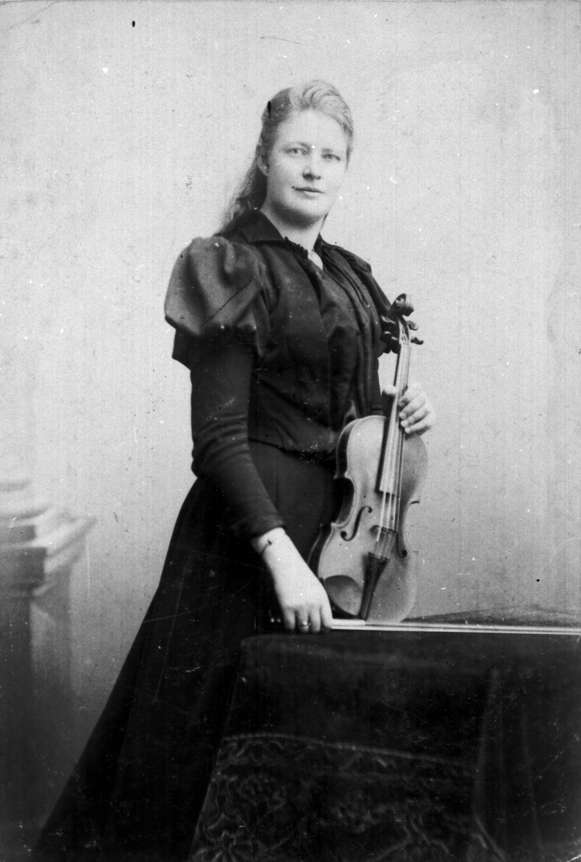 Artist: M. Büttinghausen Date/place: Amsterdam Subject: Amanda Röngten Medium: photographic positive, B&W Notes: Swedish violinist and composer Persistent URL: [#//bergenbibliotek.no/digitale-samlinger//engelsk/-intro-eng” Original belongs to the Edvard Grieg Archives at Bergen Public Library] Original reference: EGM0305